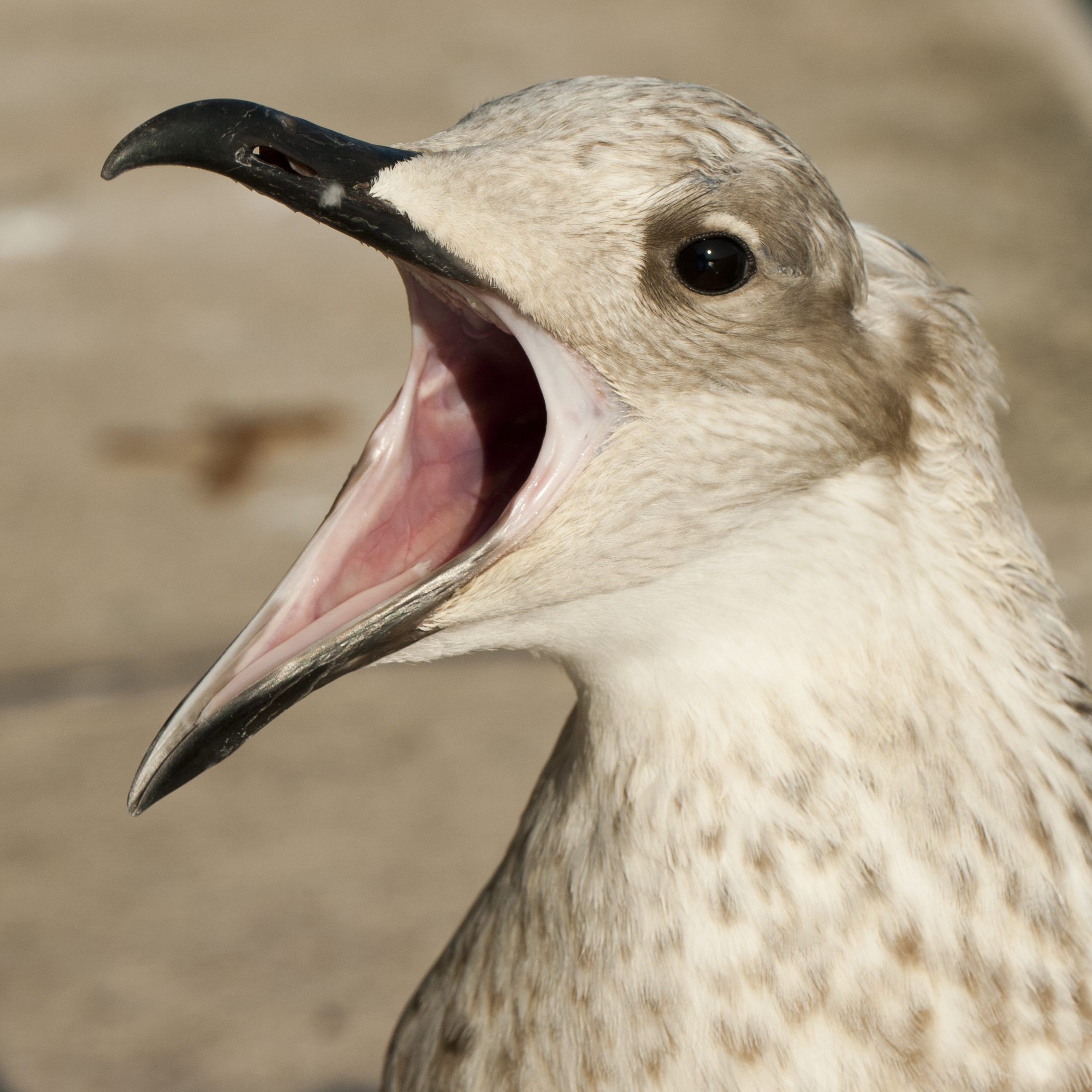 Seagull in Venice opening its mouth wide.